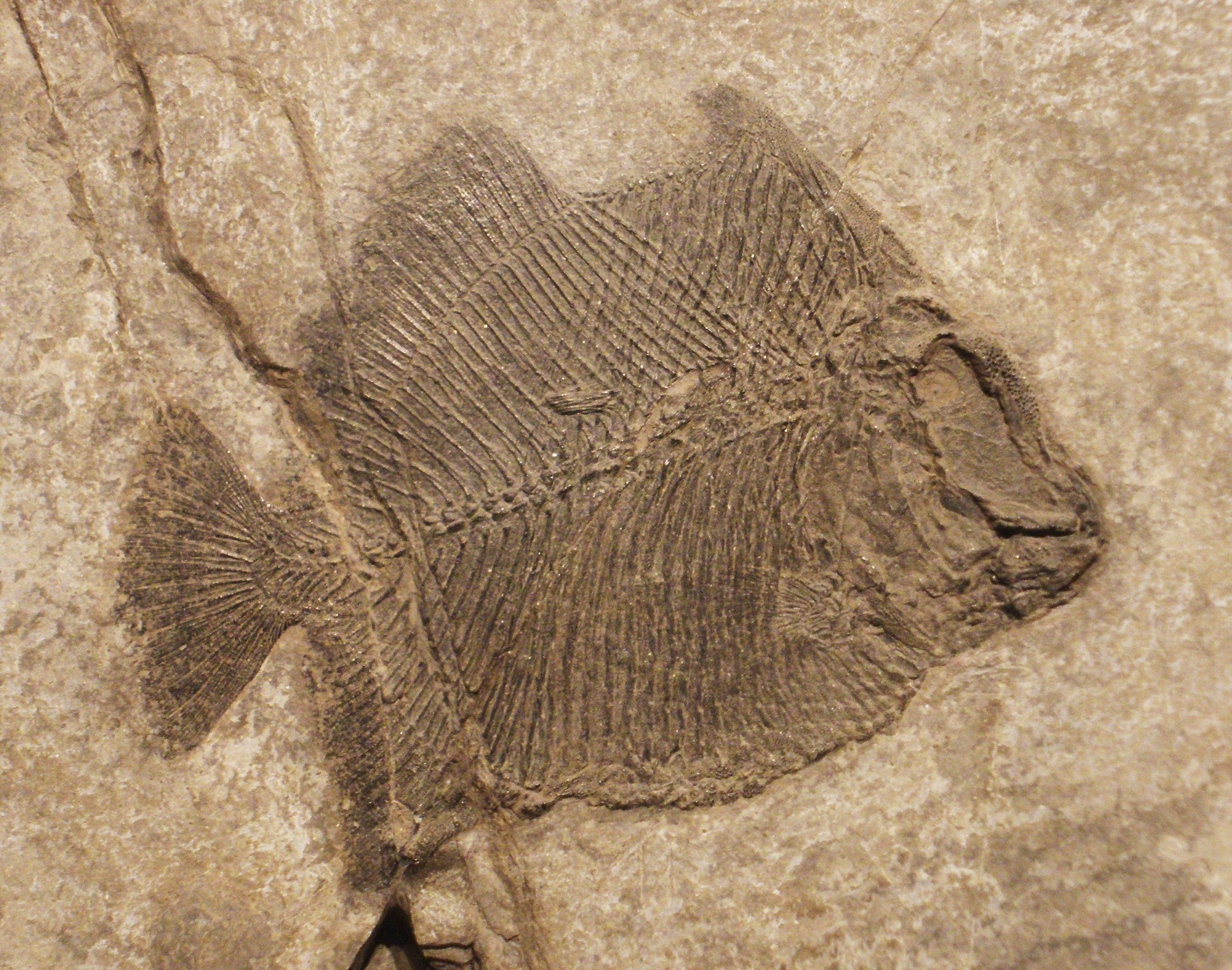 Fossil of Brembodus ridens, an extinct fish